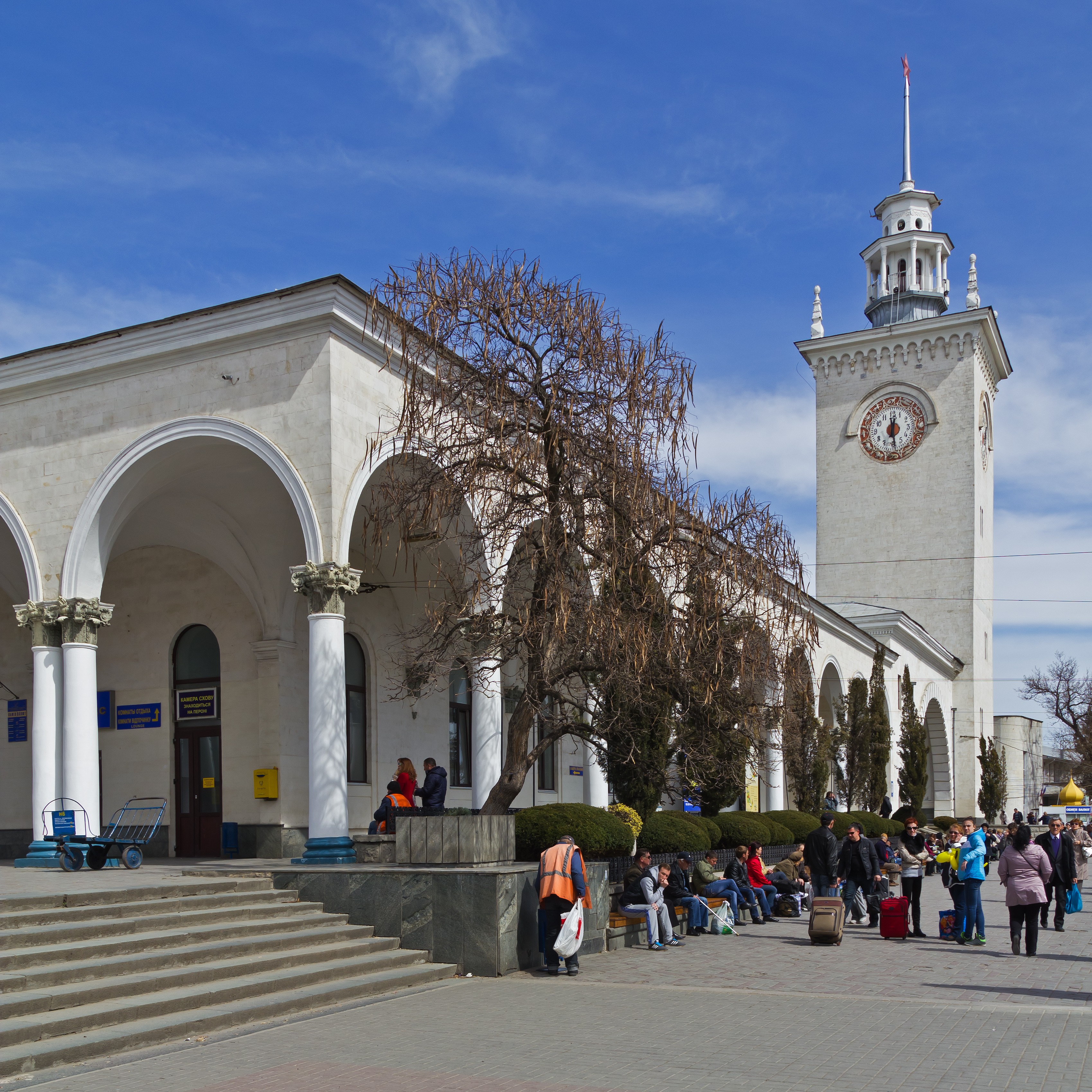 Main railway station building with clock tower in Simferopol, Crimea.